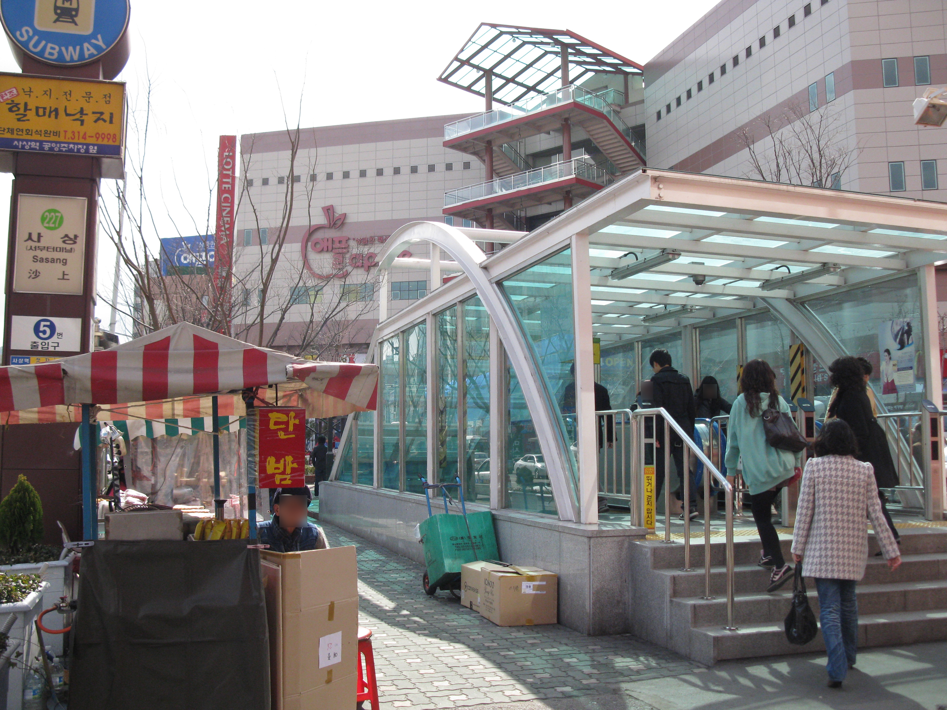 The no.5 entrance to Sasang Station on the Busan Subway Line 2 in Sasang-gu, Busan, Republic of Korea(South Korea)